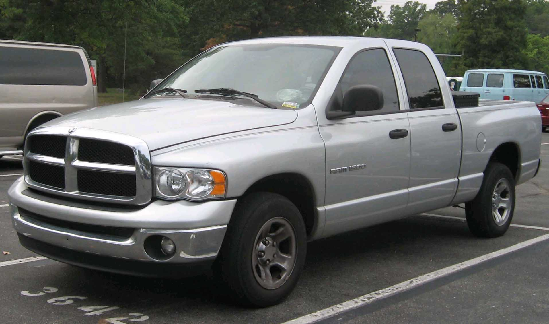 2002-2005 Dodge Ram photographed in College Park, Maryland, USA.